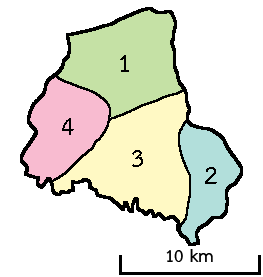 Subdistricts of Nong Hi